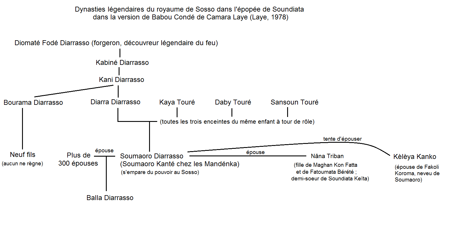 Family tree of the dynasties of the realm of Sosso in the epic of Sundiata, according to Babou Condé and Camara Laye (version published by Camara Laye in "Le Maître de la parole" in 1978). Soumaoro Diarrasso, also known as Soumaoro Kanté, is the main antagonist of Sundiata Keita in the Mandé epic.